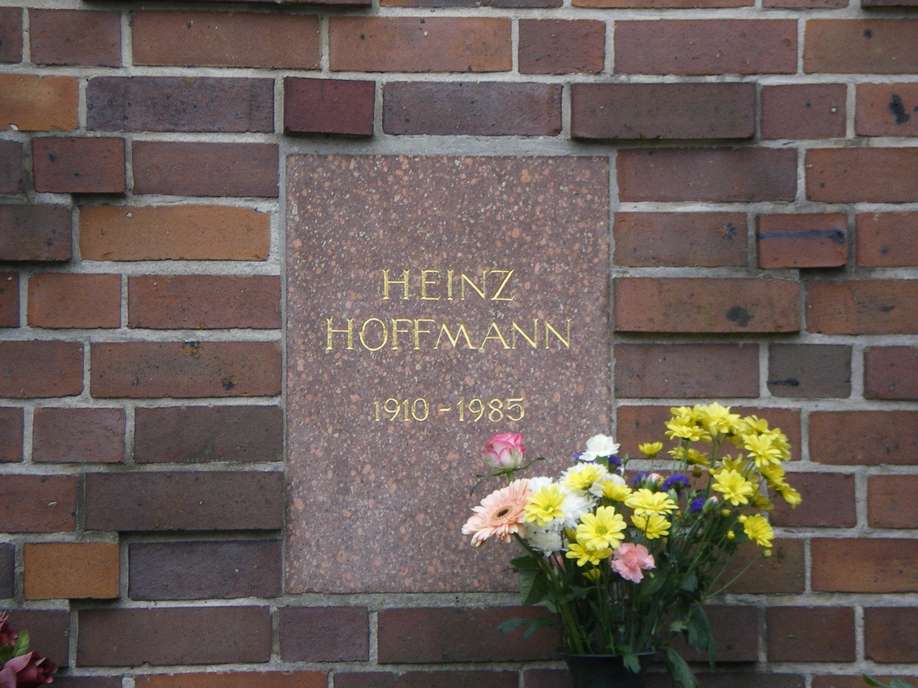 Memorial plaque over Heinz Hoffmanns grave in Gedenkstätte der Sozialisten on Zentralfriedhof Friedrichsfelde, Lichtenberg.